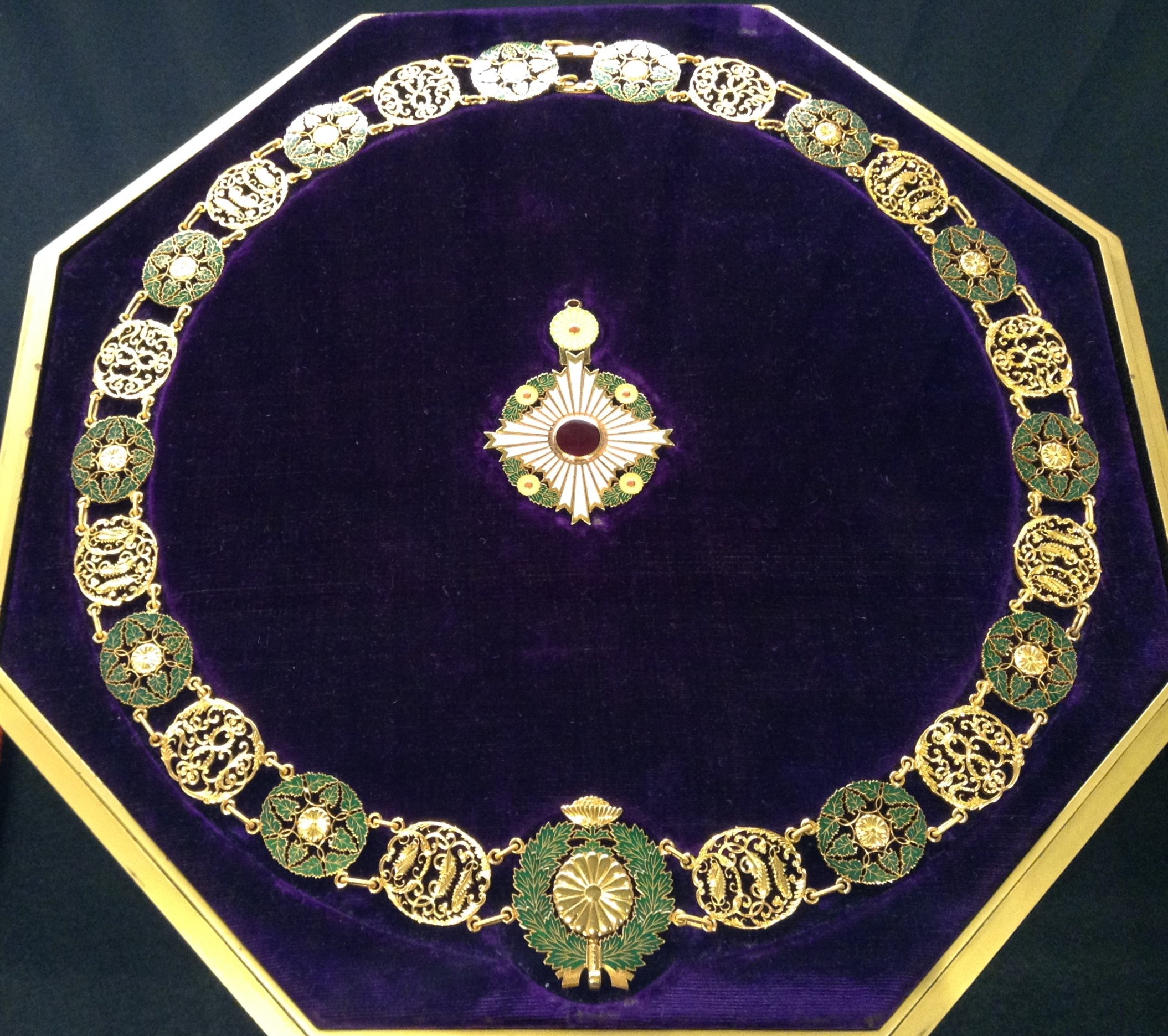 Collar of the Supreme Order of the Chrysanthemum